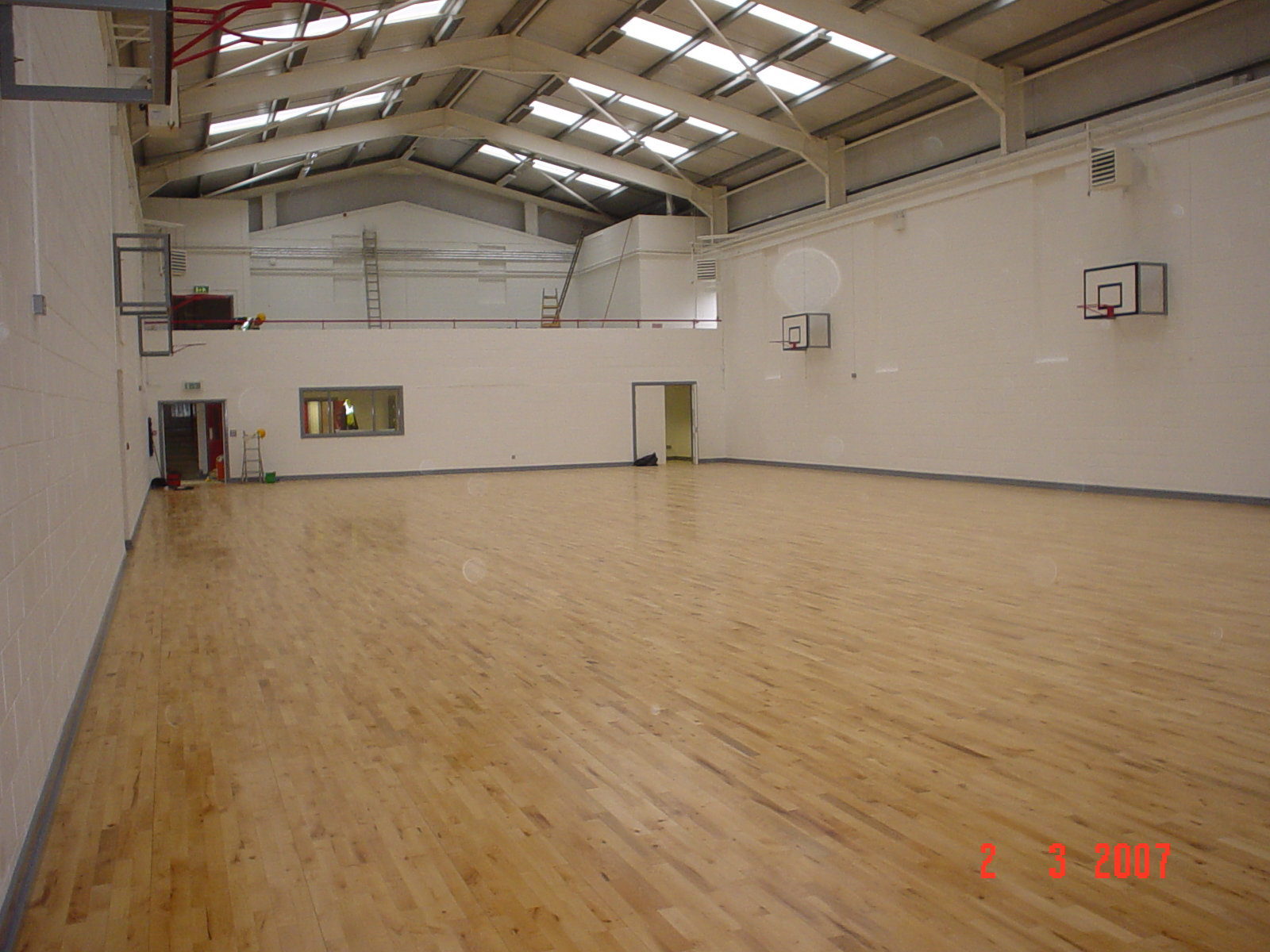 The newly extended gymnasium at Bridgetown Vocational College in Bridgetown, County Wexford, Ireland